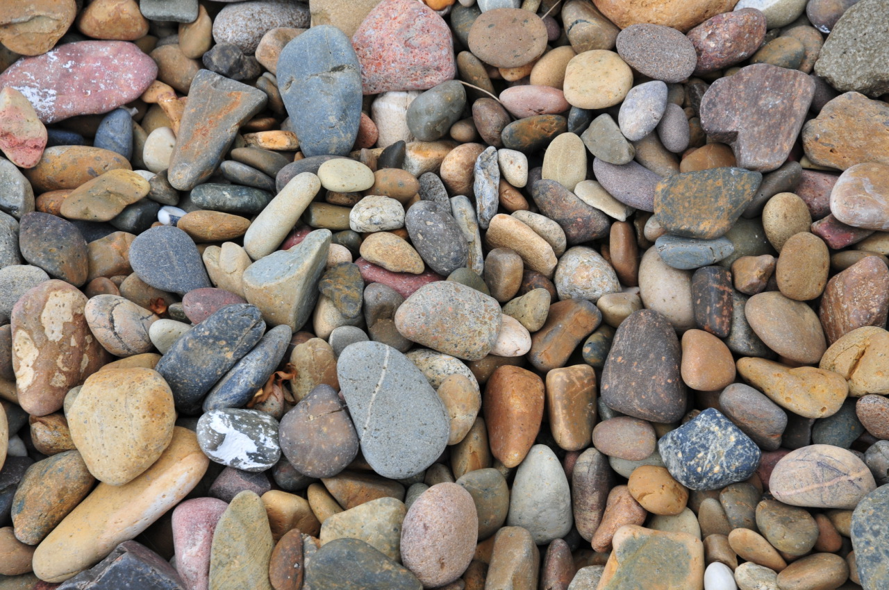 On the outer beach of Broulee Island the tides wash the sand away, leaving behind a bed of assorted small rocks.